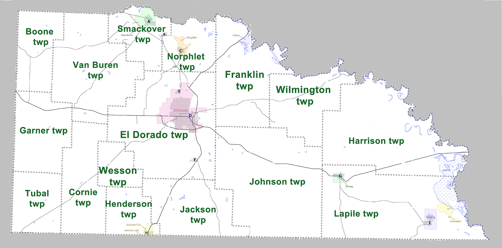 Large map showing townships in Union County, Arkansas. Modified from US census map (for 2010 census) for Union County, Arkansas